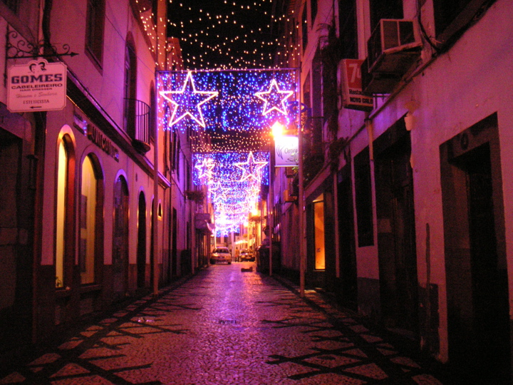 Fuchal, and really all cities in Portugal have fantastic Christmas lights.